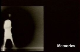 This is a still image from a Hybrid Artworks performance.